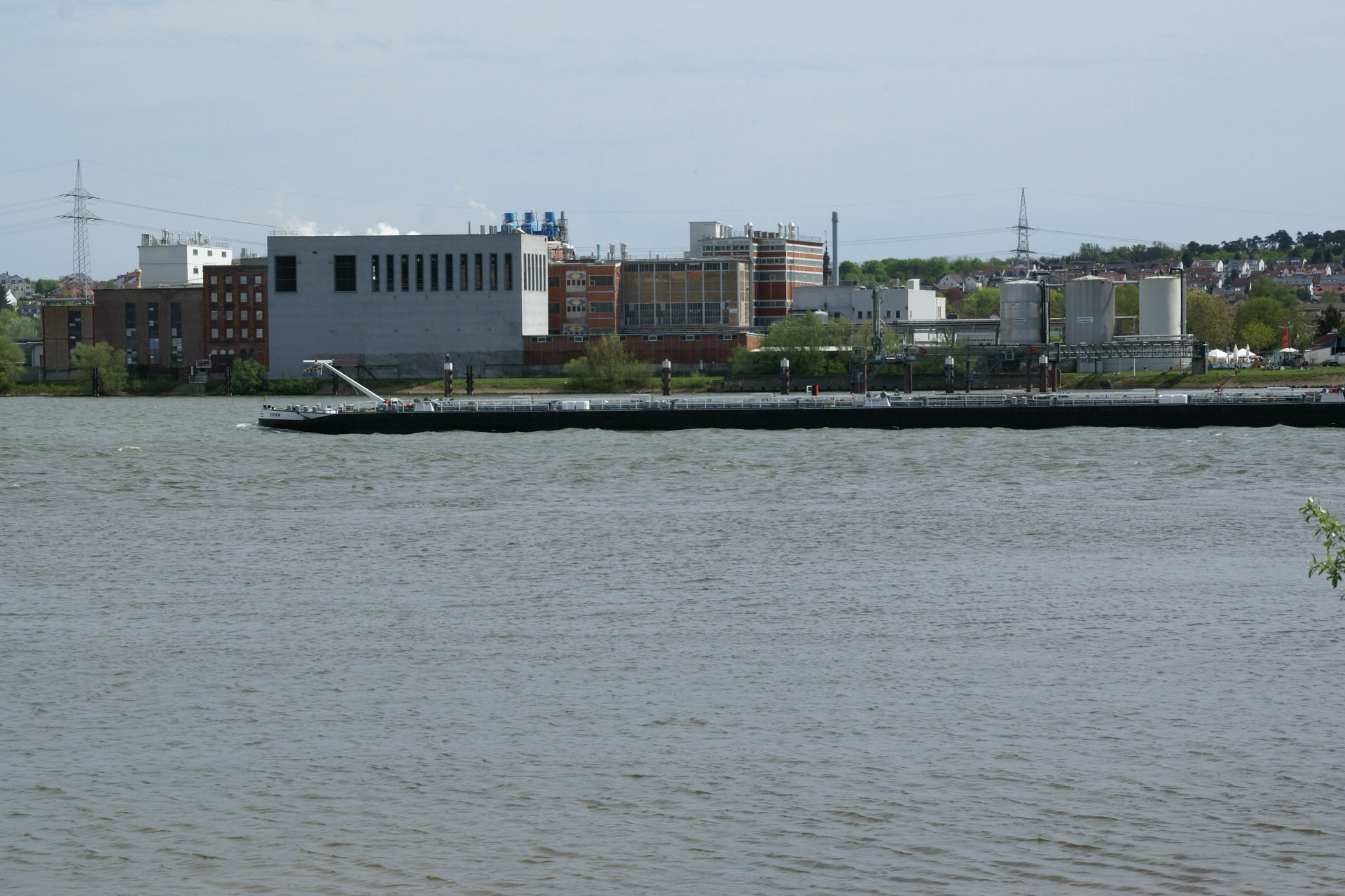 View of Budenheim on the other side of the river Rhine from Walluf, near Wiesbaden, Germany